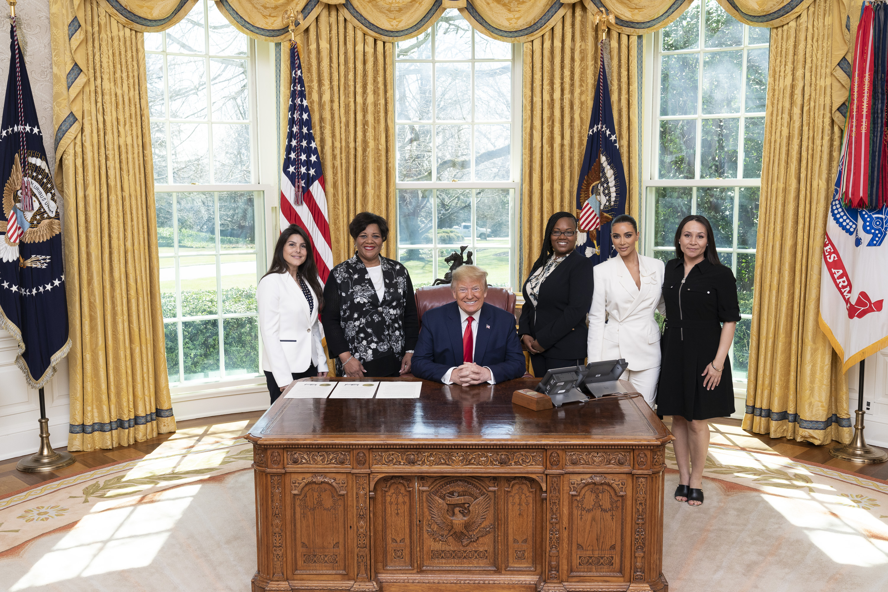 President Donald J. Trump, joined by Kim Kardashian West–second from right, welcomes sentencing commutation recipients from left, Judith Negron, Alice Johnson, Tynice Hall and Crystal Munoz on Wednesday, March 4, 2020, to the Oval Office of the White House. (Official White House Photo by Joyce N. Boghosian)